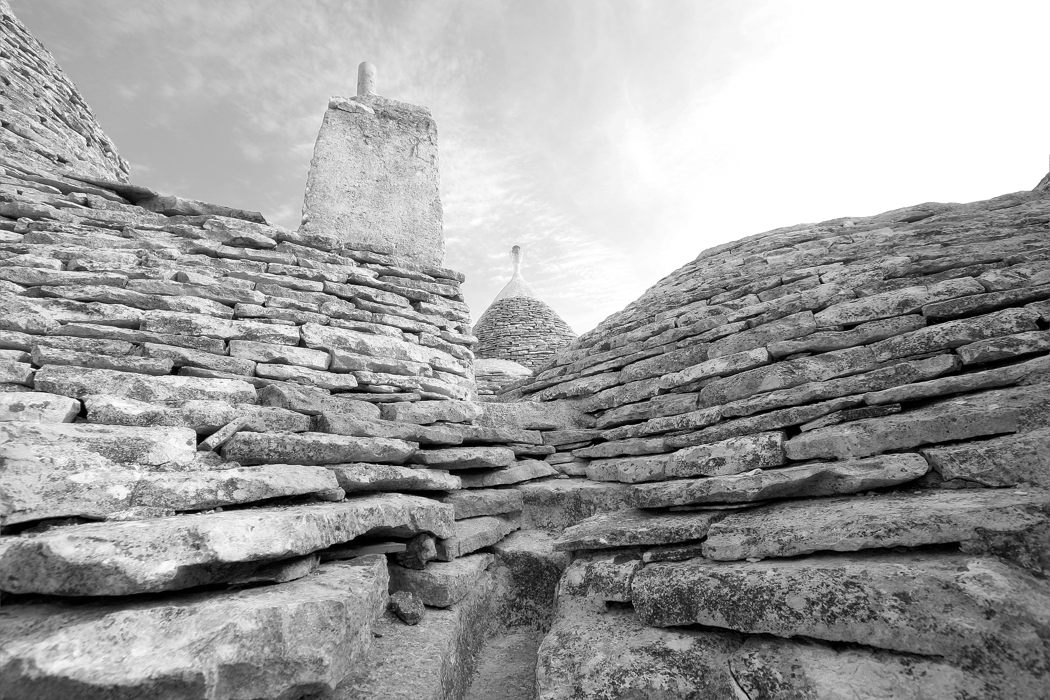 Roof of two trullis detailed view